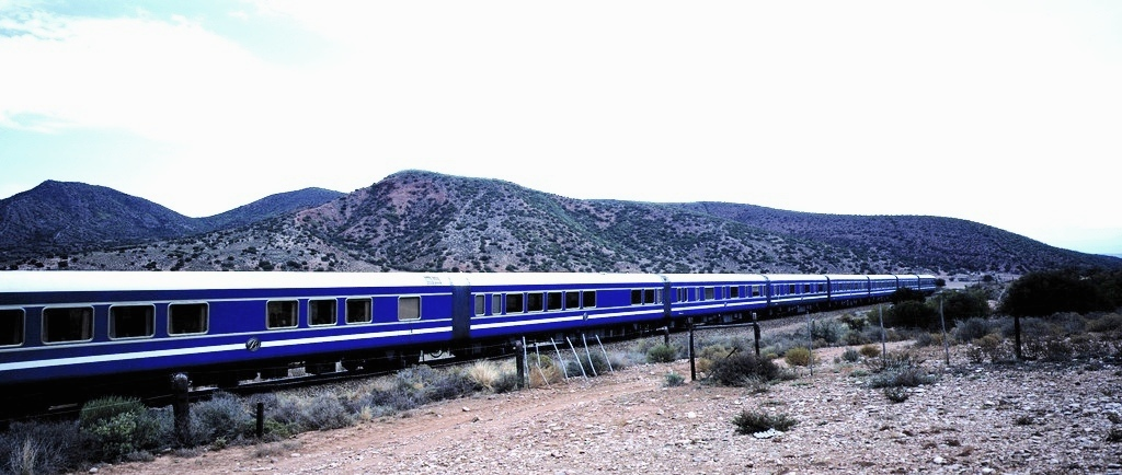 The Blue Train traveeling from Pretoria to Cape Town passes through the Karoo